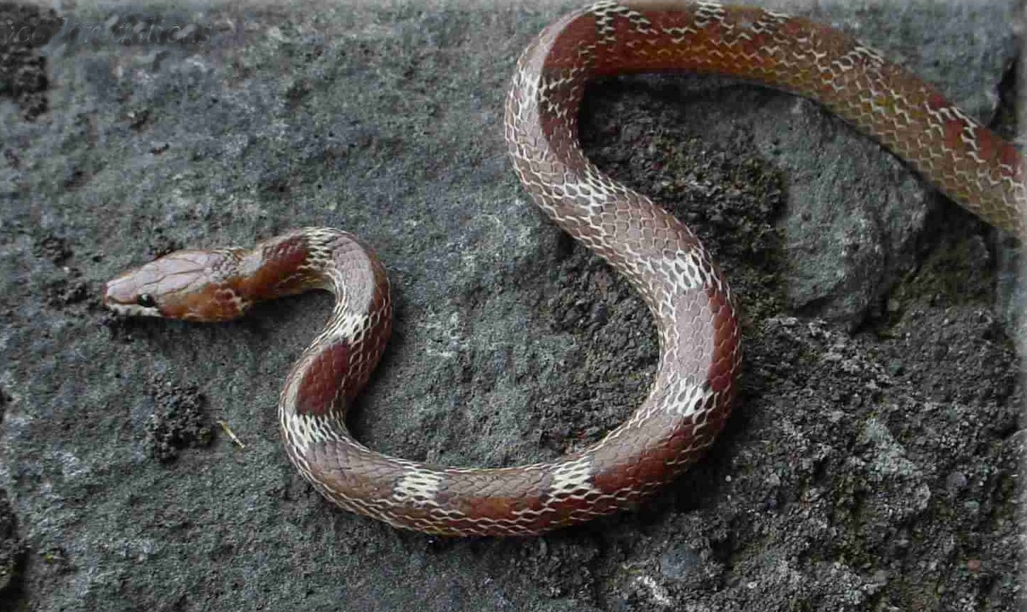 Indian Wolf Snake (Lycodon aulicus), Reunion Island